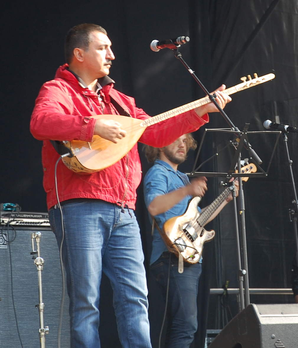 Singer Ferhat Tunc in Oslo, august 2012